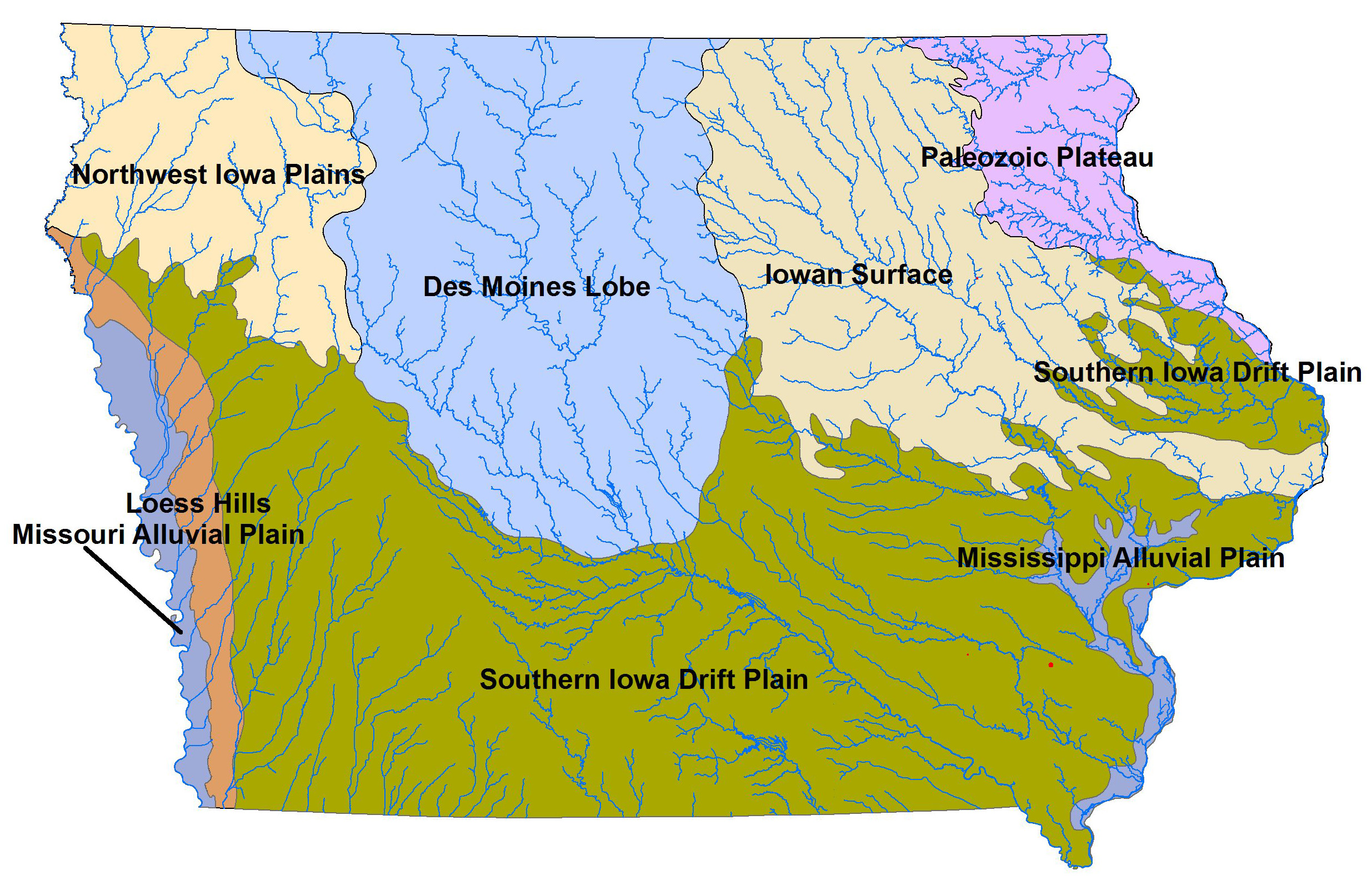 Landforms of Iowa, based on public domain Iowa State Unversity Geograpical Map Server and Iowa DNR map. The Landforms are defined by Jean Prior (1991), ultimately based on Samuel Calvin's (1904) Drift Sheets of Iowa map.